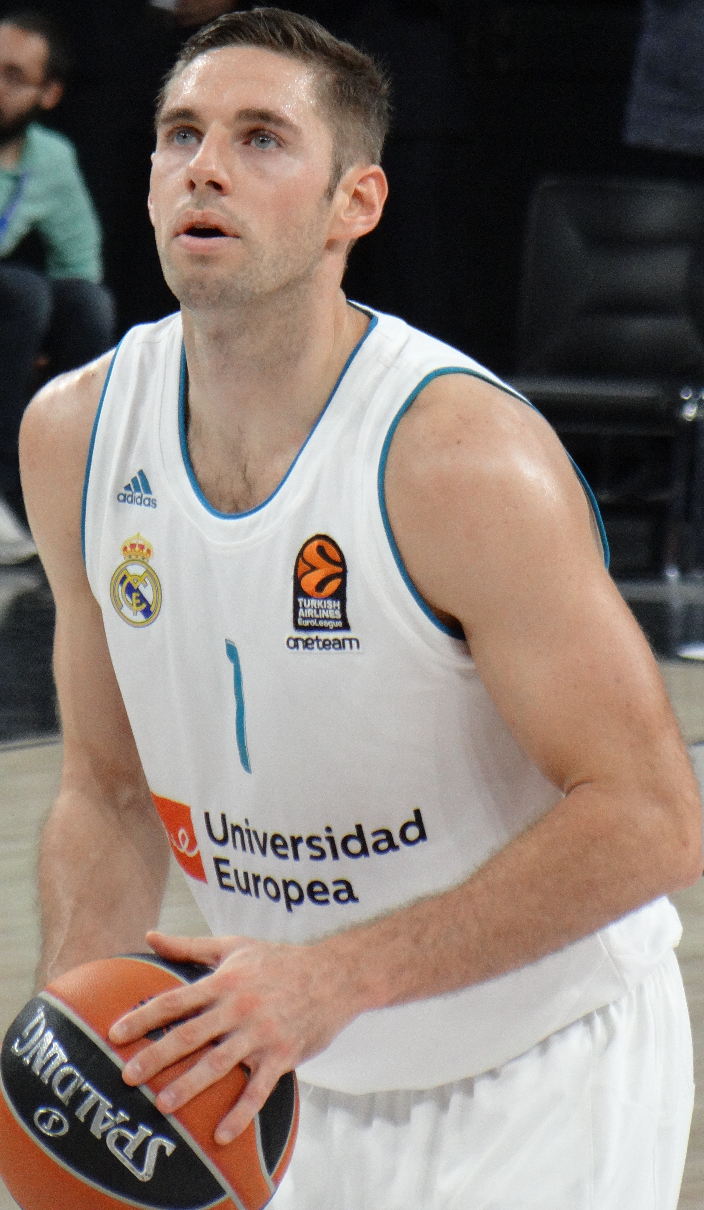 Fabien Causeur 1 Real Madrid Baloncesto Euroleague 20171012